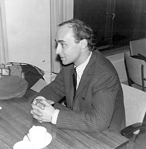 Vlaams acteur Senne Rouffaer, 1965